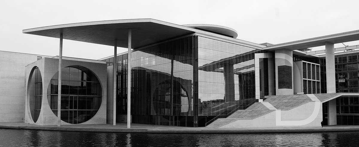 Library of the German Bundestag, Berlin.